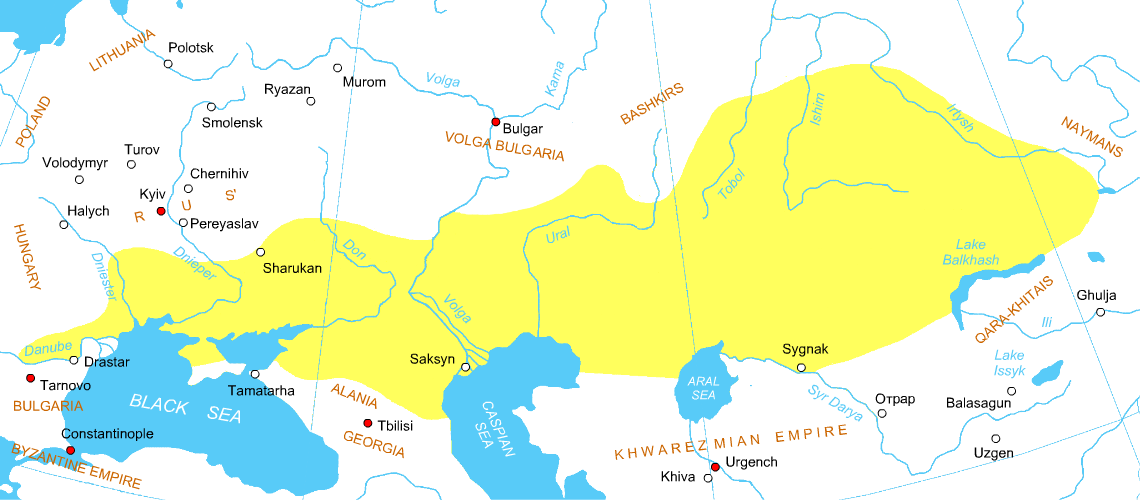 Cumania (Desht-i Qipchaq). early 13th c.